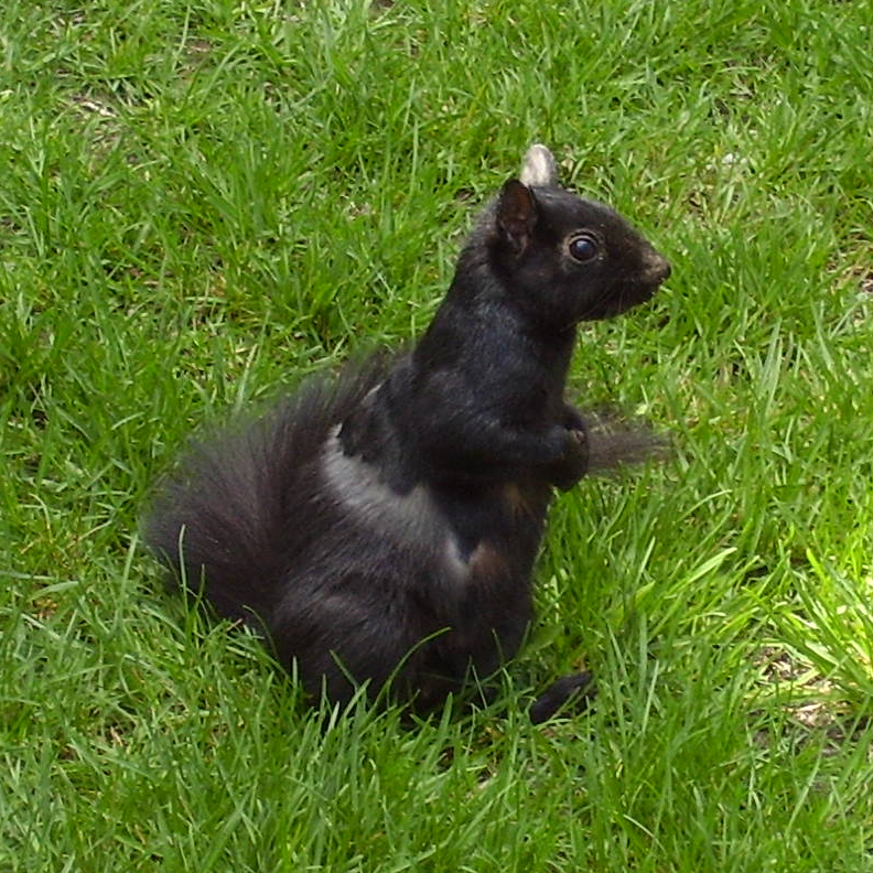 Melanistic Eastern grey squirrel (Sciurus carolinensis), of brown (brown-black) phenotype, in Toronto, Canada.